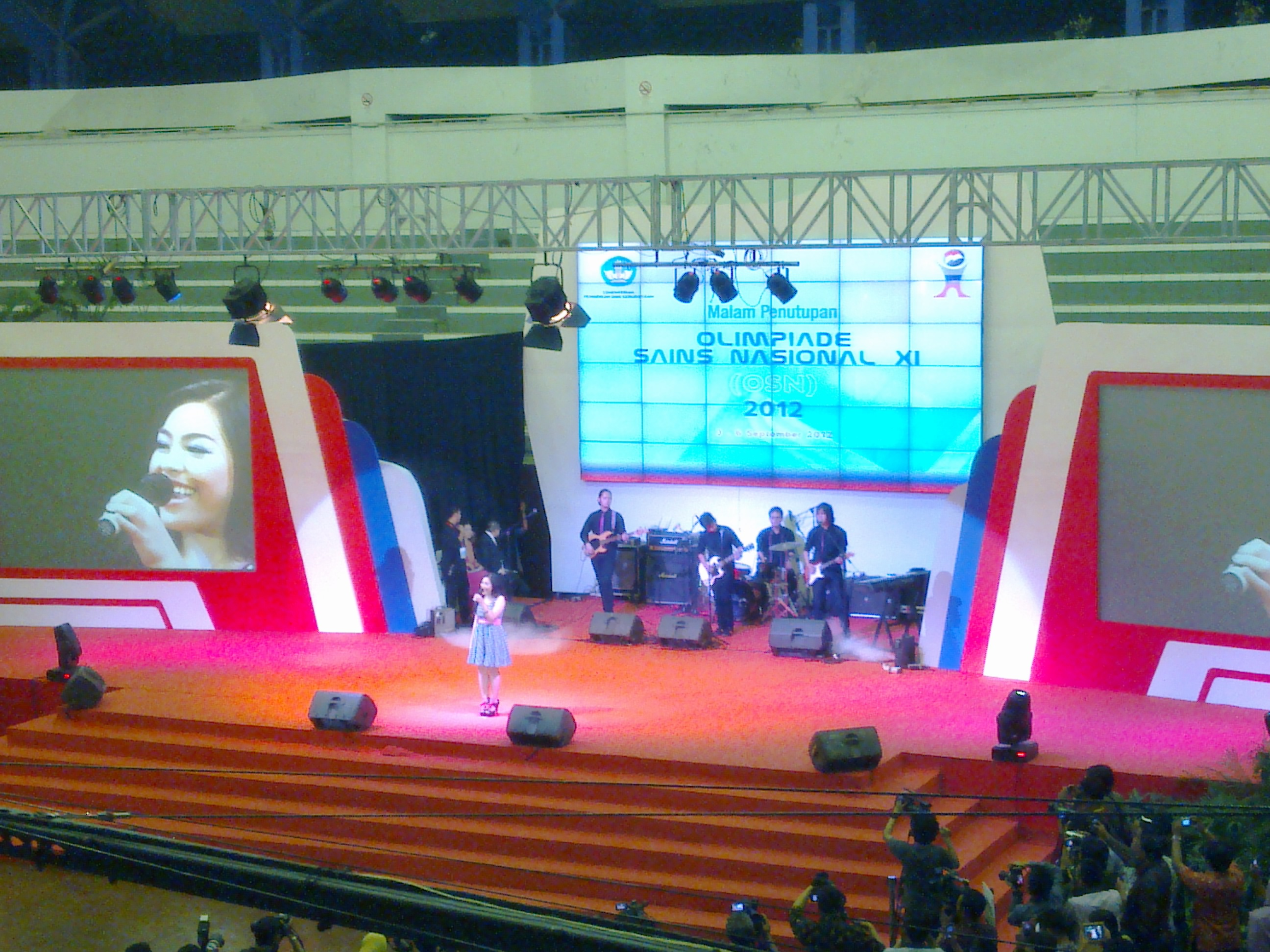 Raisa Andriana at OSN 2012 (National Science Olympiad) Closing Ceremony, Jakarta, Indonesia.